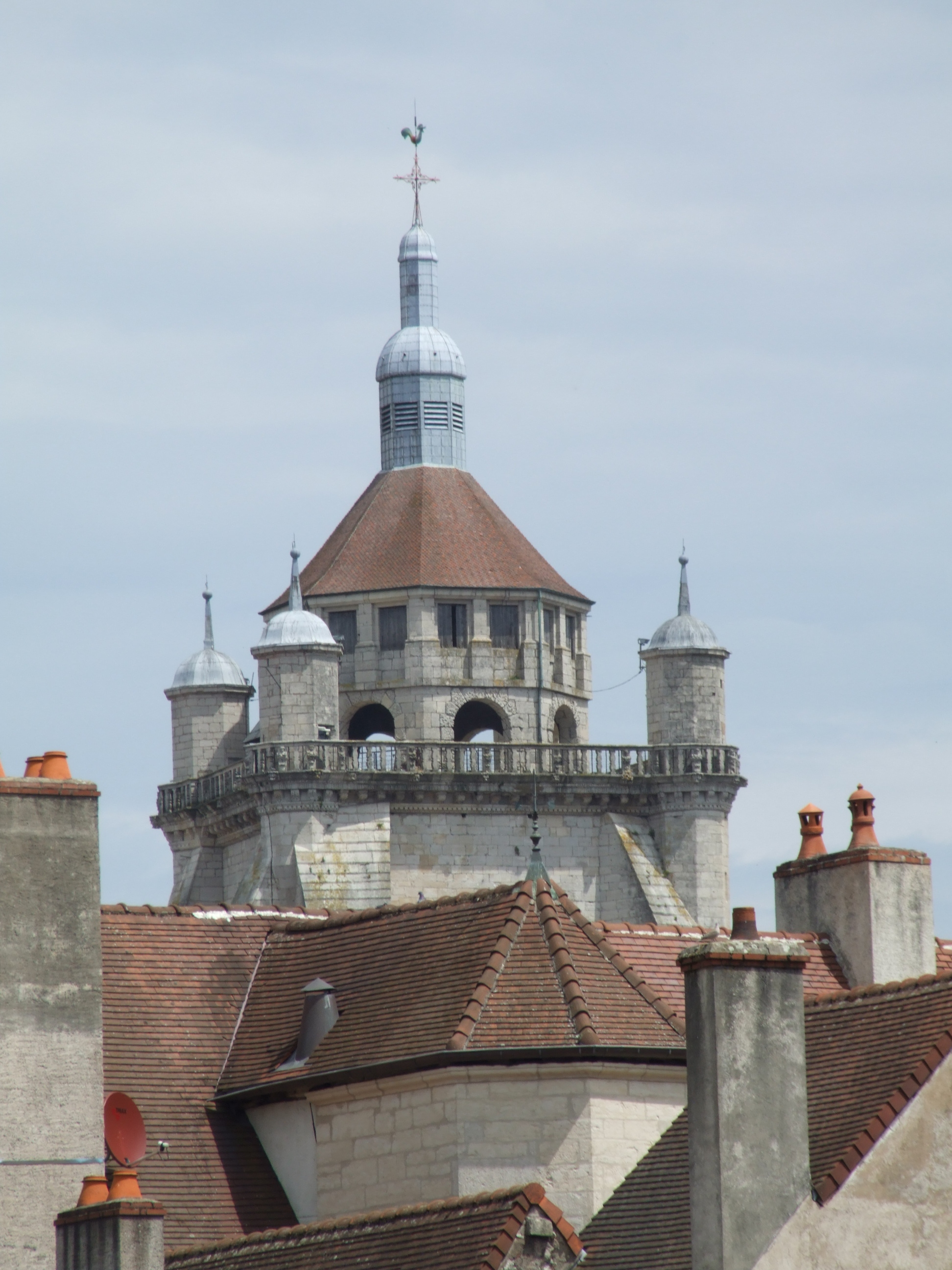 Dole, Jura, FRANCE